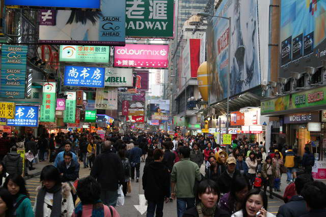 Sai Yeung Choi Street South, Mongkok, Hong Kong